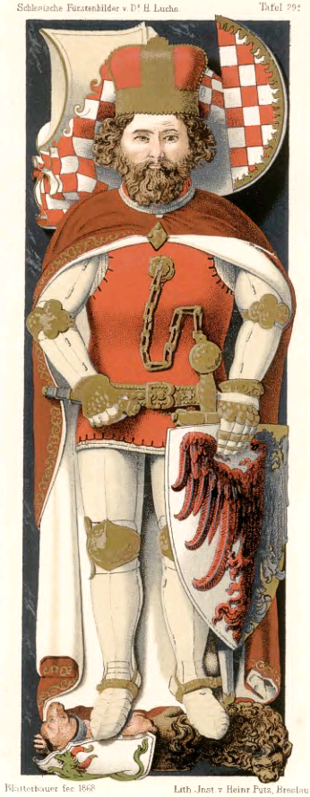 Bolko II duke of Silesia-Schweidnitz † 1368